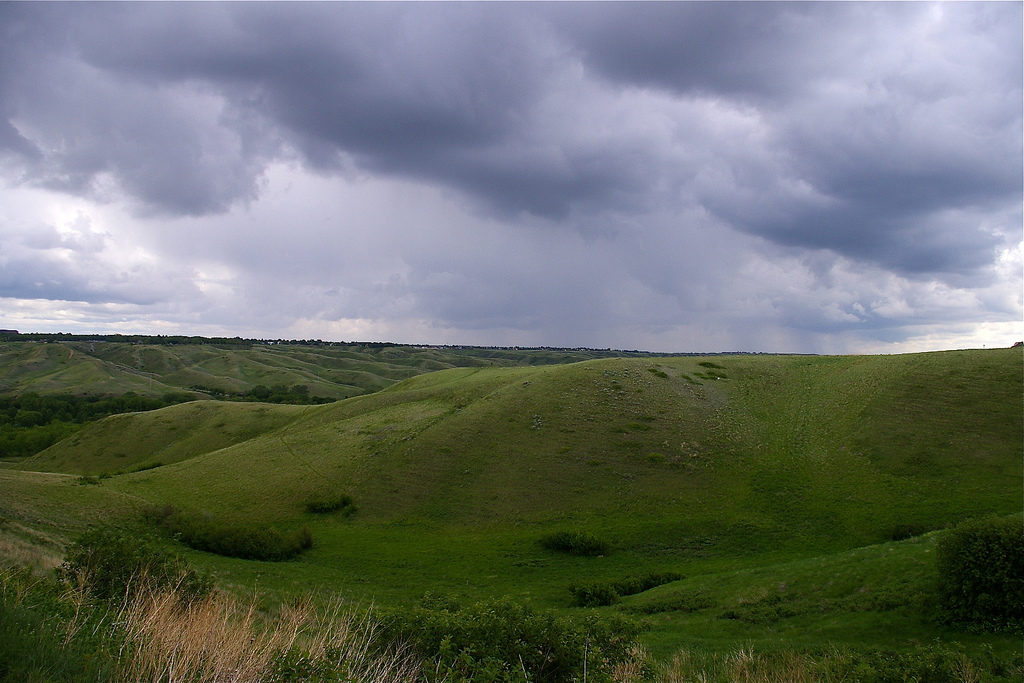 A lush, green Old Man River valley with dark thunderclouds in the sky.